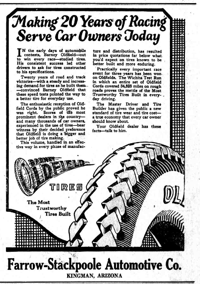 Newspaper ad for Barney Oldfield tires.